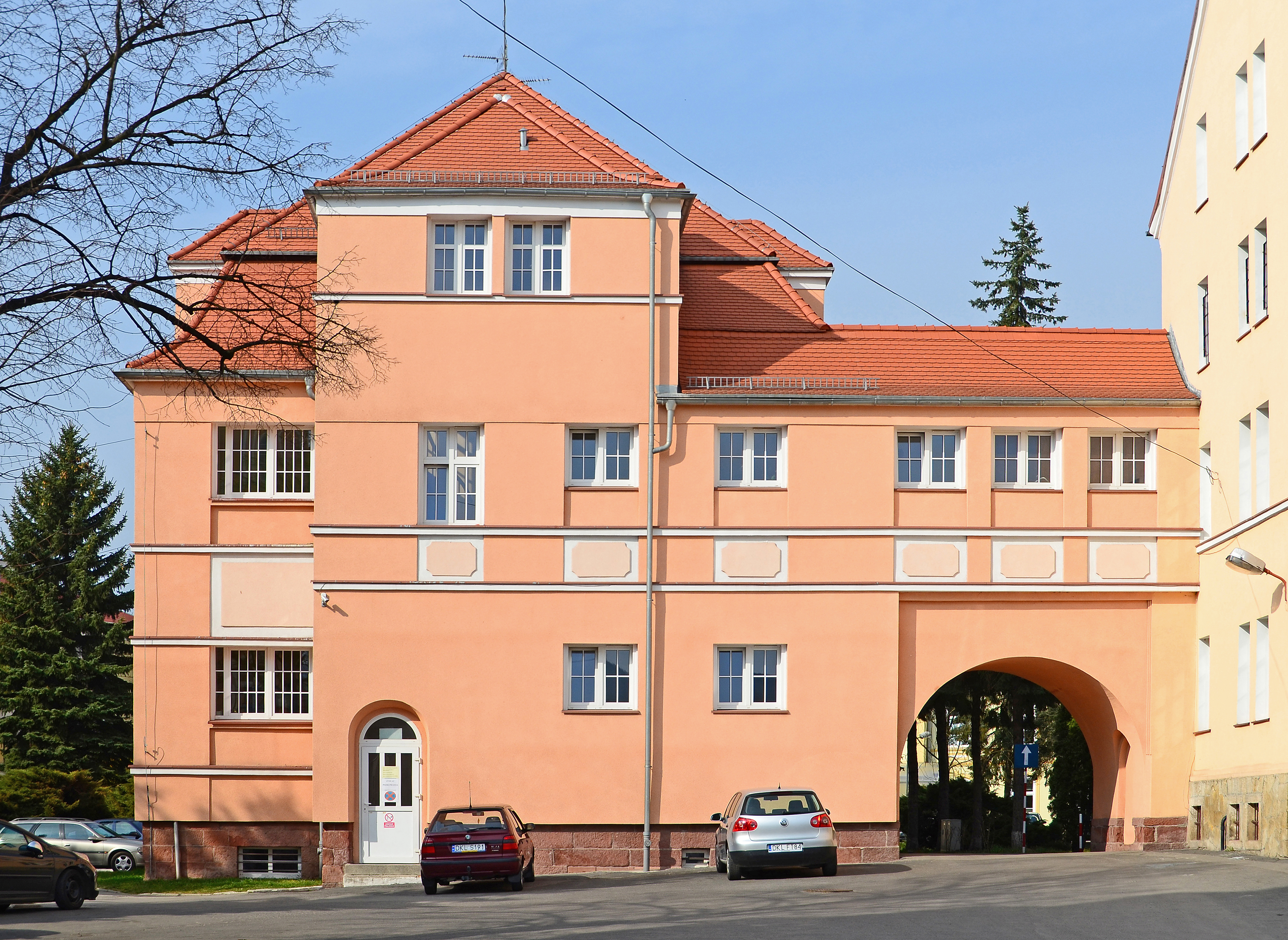 Building of Department of Neurology at Kłodzko Hospital